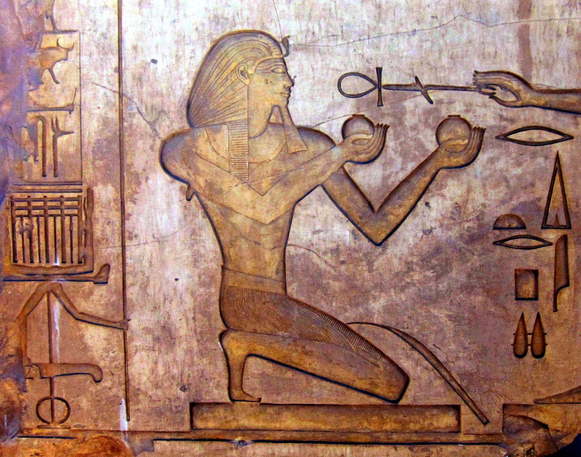 stone block with relief at Karnak Temple